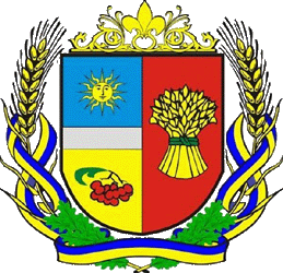 Coats of arms of Kalinivskij district (Ukraine)